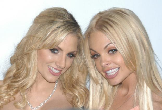 Teagan Presley, Jesse Jane at Digital Playground party for movie Island Fever 4, September 17 2006